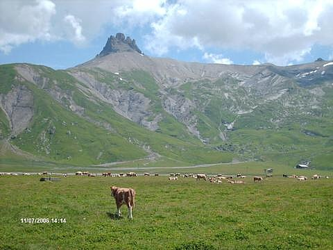 Cattle on alp pasture